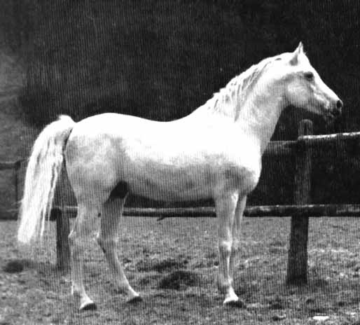 Jasir or.Ar.(1925)(von Mabrouk or. Ar.(1912), aus der Negma Or.Ar.(1906)) PUrebred Arabian stallion, influential in formation of the Shagya Arabian